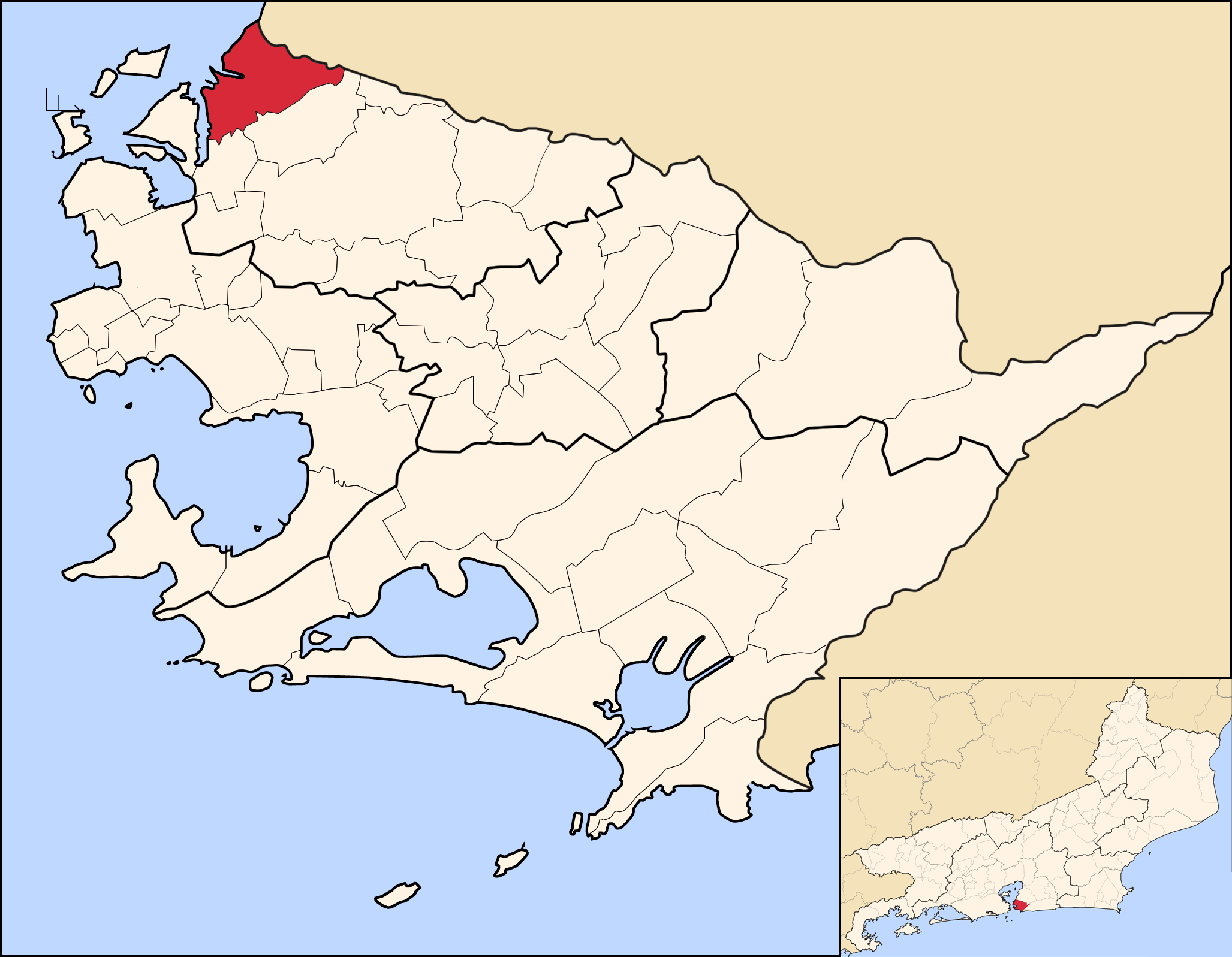 Location of Barreto (red) at Niterói, Rio de Janeiro, Brazil.